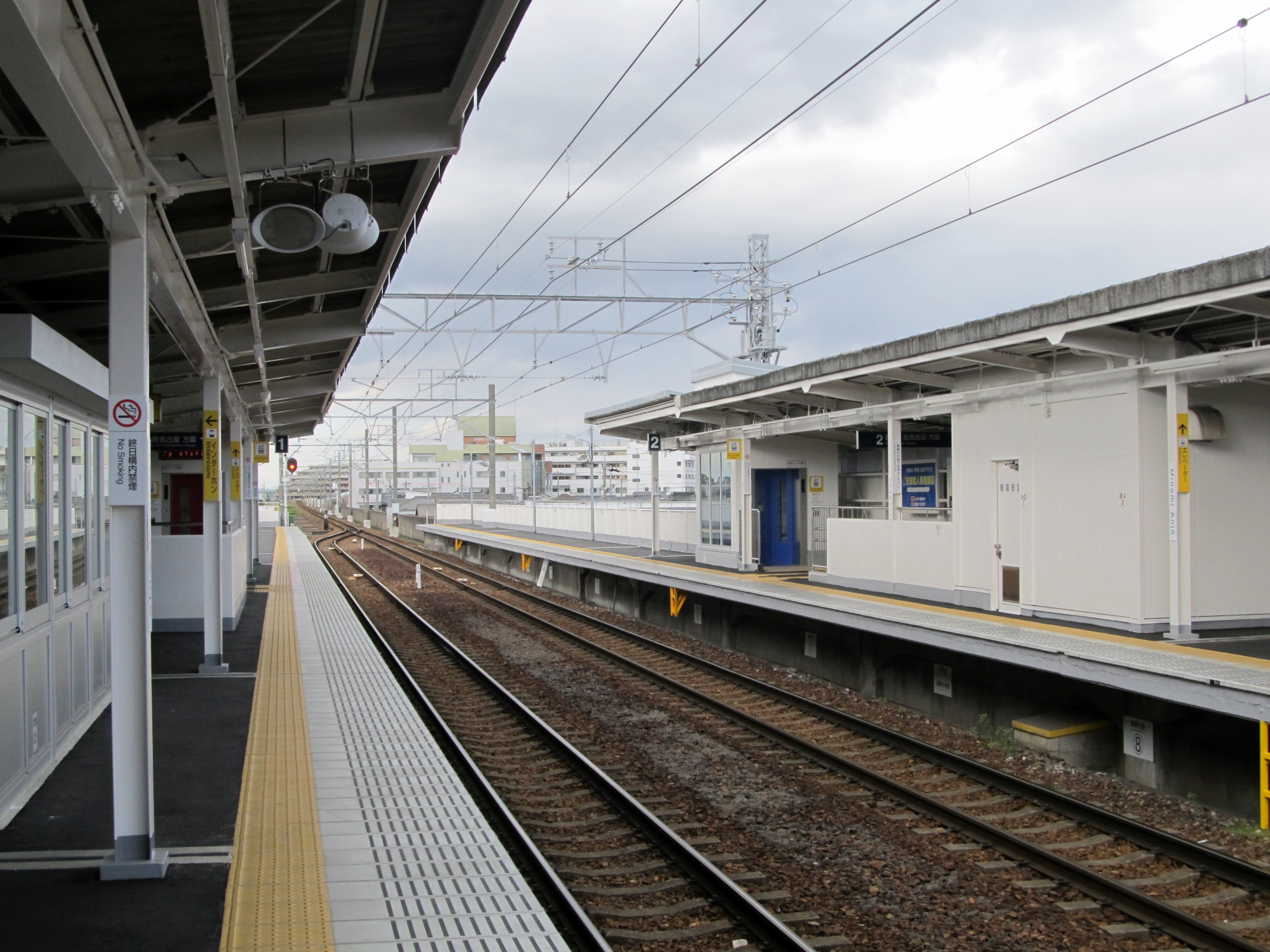 Nagoya Railroad Nishio Line Minami Anjō Station Platform